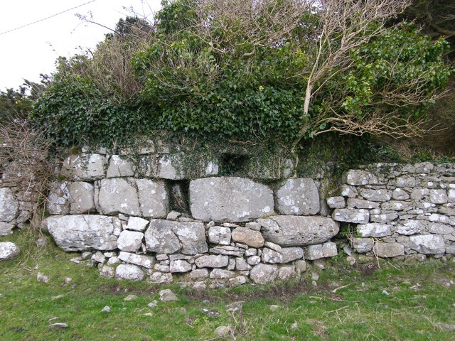 Ardrahan Round Tower, near to Ardrahan and Laban, Galway, Ireland. All that remains of the Ardrahan round tower is a few courses of cut limestone incorporated into the cemetery wall. The ground level in the cemetery is raised from centuries of burials, such that no remains of the tower are visible inside the cemetery.